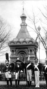 Pre-revolutionary photograph of the Alexander Nevsky chapel on Aptekarsky Island in St.-Petersburg